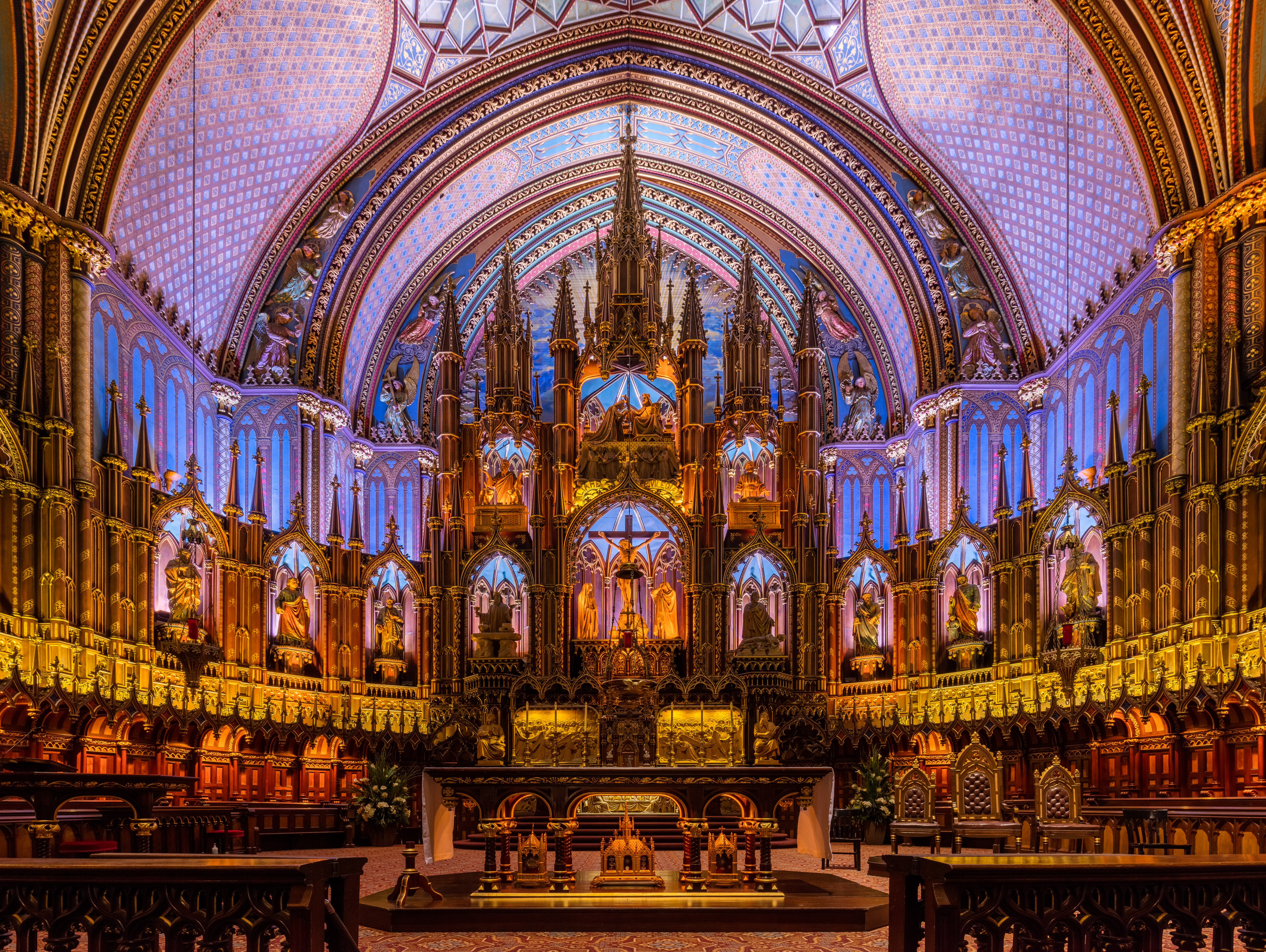 Interior of the Notre-Dame Basilica, located in the historic district of Old Montreal, in Montreal, Quebec, Canada. The interior of the basilica, built in Gothic Revival style, is impressive with vivid colors, stars and filled with hundreds of intricate wooden carvings and several religious statues. It was built between 1823 and 1829 after a design of James O'Donnell and it has become one of the landmarks of the city.